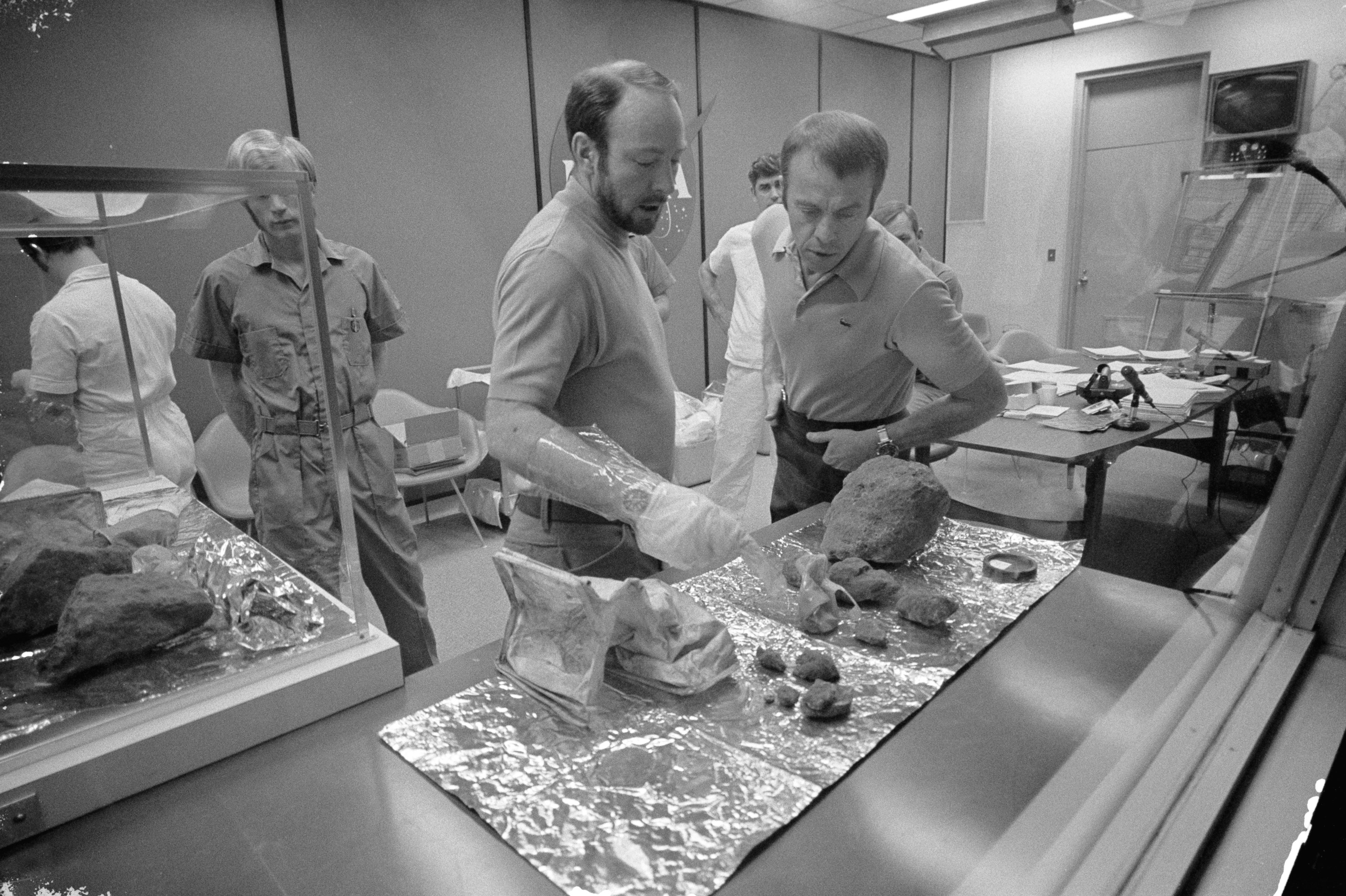 The two moon-exploring crewmen of the Apollo 14 lunar landing mission show off some of the largest of the lunar rocks they collected on their mission, during a through-the-glass meeting with newsmen in the Crew Reception Area of the Lunar Receiving Laboratory (LRL) at the Manned Spacecraft Center (MSC). Astronaut Edgar D. Mitchell (left), lunar module pilot, holds up a tote bag in which some of the lunar samples were stowed, while astronaut Alan B. Shepard Jr., commander, looks on. The largest sample brought back on the mission, a basketball-size rock (nicknamed "Big Bertha"), is said to be the largest lunar rock collected in three lunar landing missions for the National Aeronautics and Space Administration (NASA).